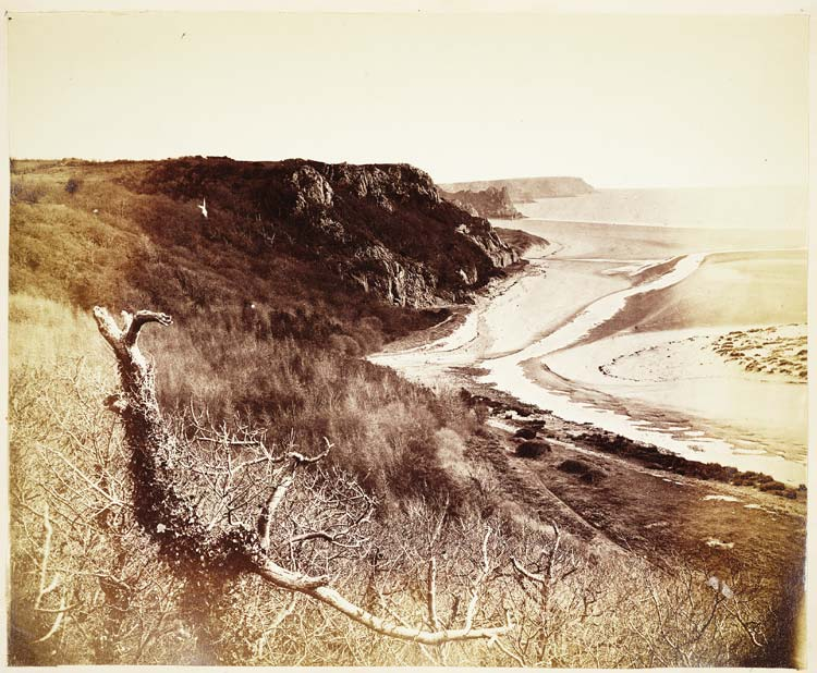 Ffotograffydd/Photographer: John Dillwyn Llewelyn (1810-1882) Nodyn/Note: Other title: ‘Crawley Rocks, the Great Tor from Nicholaston Woods’. Probably No 16 in Photographic Society of London Exhibition 1858. Dyddiad/Date: 185- Cyfrwng/Medium: Print taken from an oxymel negative. Cyfeiriad/Reference: dil00044 (pb08732/23) Rhif cofnod / Record no.: 3590003 Rhagor o wybodaeth am Ffotograffiaeth Gynnar Abertawe yn Llyfrgell Genedlaethol Cymru More information about Early Swansea Photography at the National Library of Wales